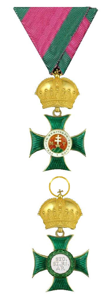 Orde van de Heilige Stefanus Duits: Königlich Ungarischer Orden des Heiligen Stephan Hongaars: Magyar királyi Szent István lovagrend